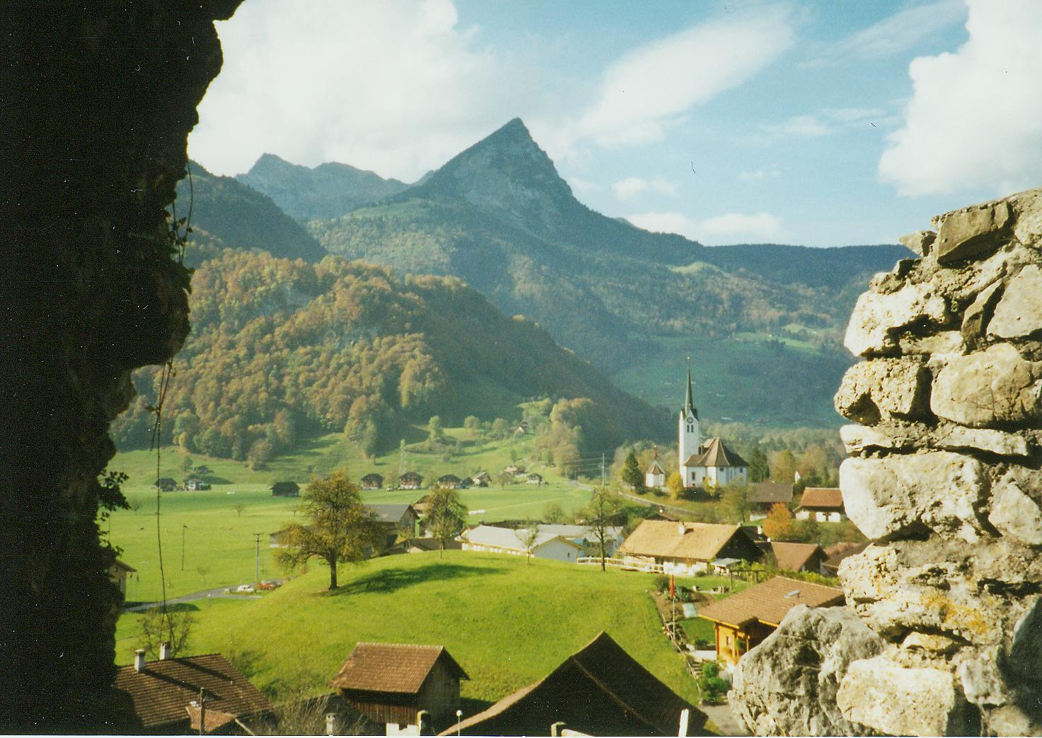 Village church in Giswil, Obwalden, Switzerland